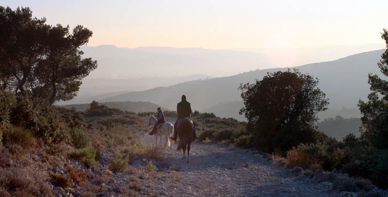 horses riders in Luberon (84), France